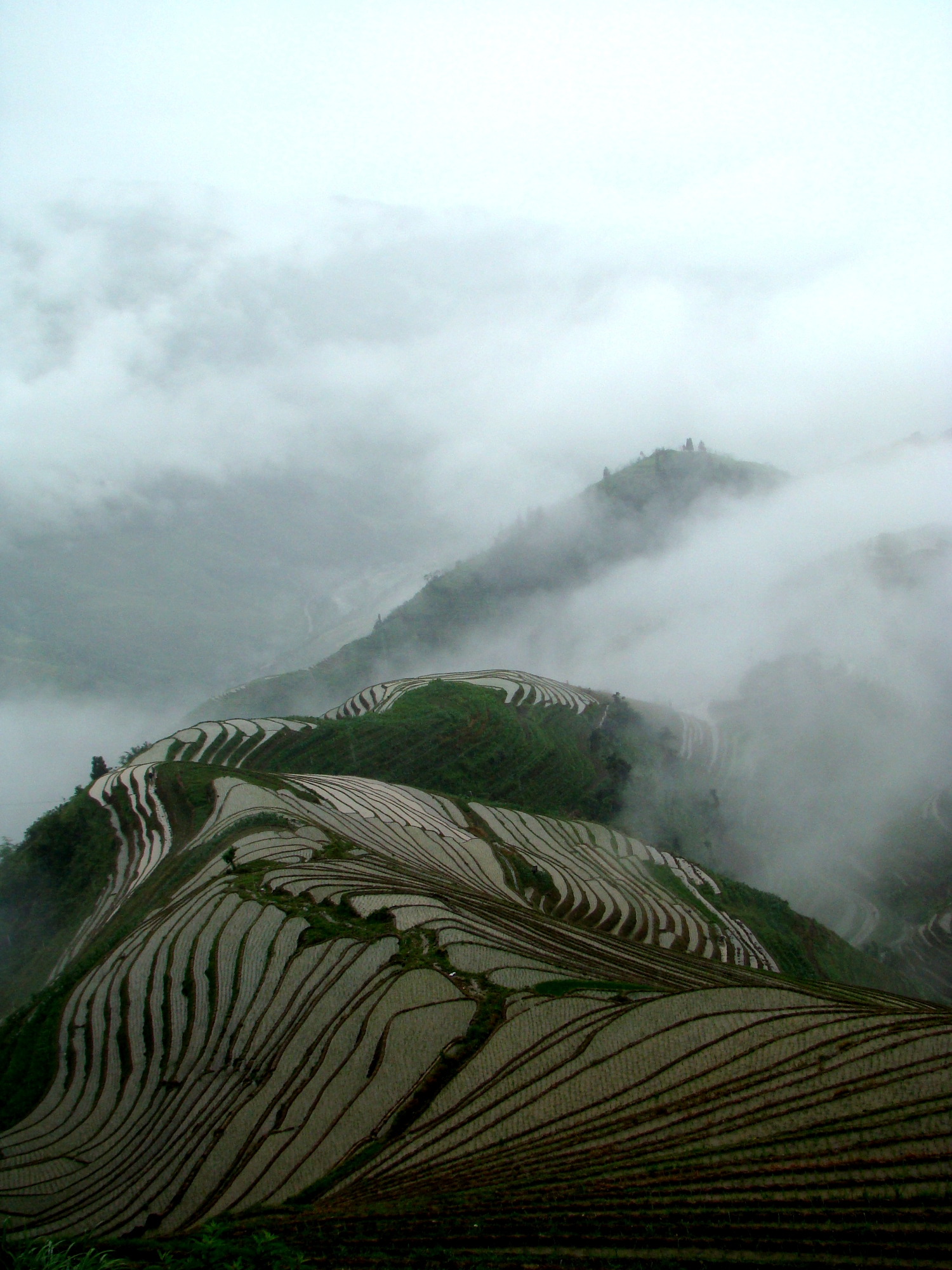 Terrace rice fields in Guangxi Province, China.